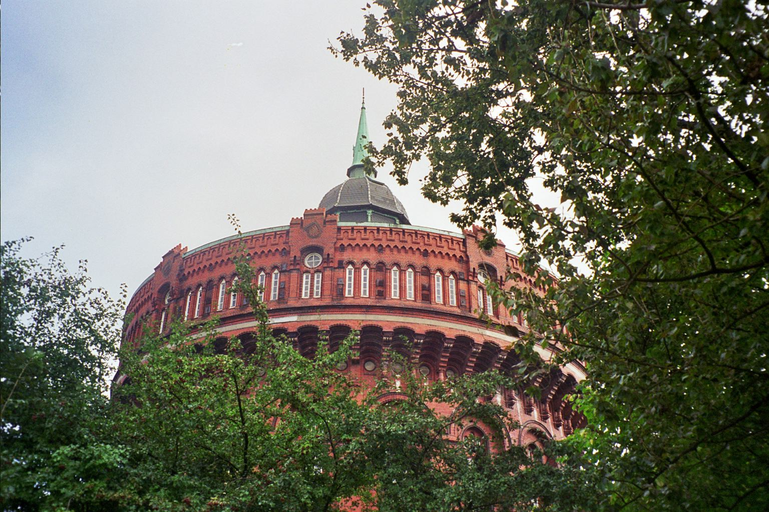 An old water tower of Kiel (Germany)